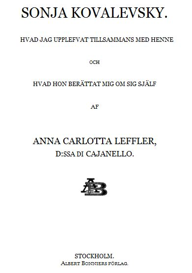 Swedish writer Anne Charlotte Leffler's biography over Sonja Kovalevskaya from 1892.